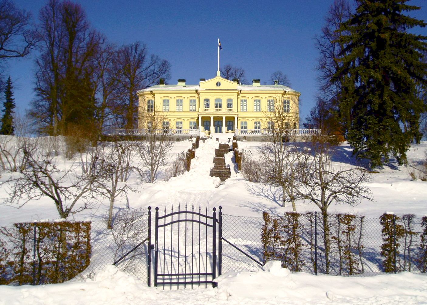 Mansion at Kevinge, Danderyd Municipality, Sweden